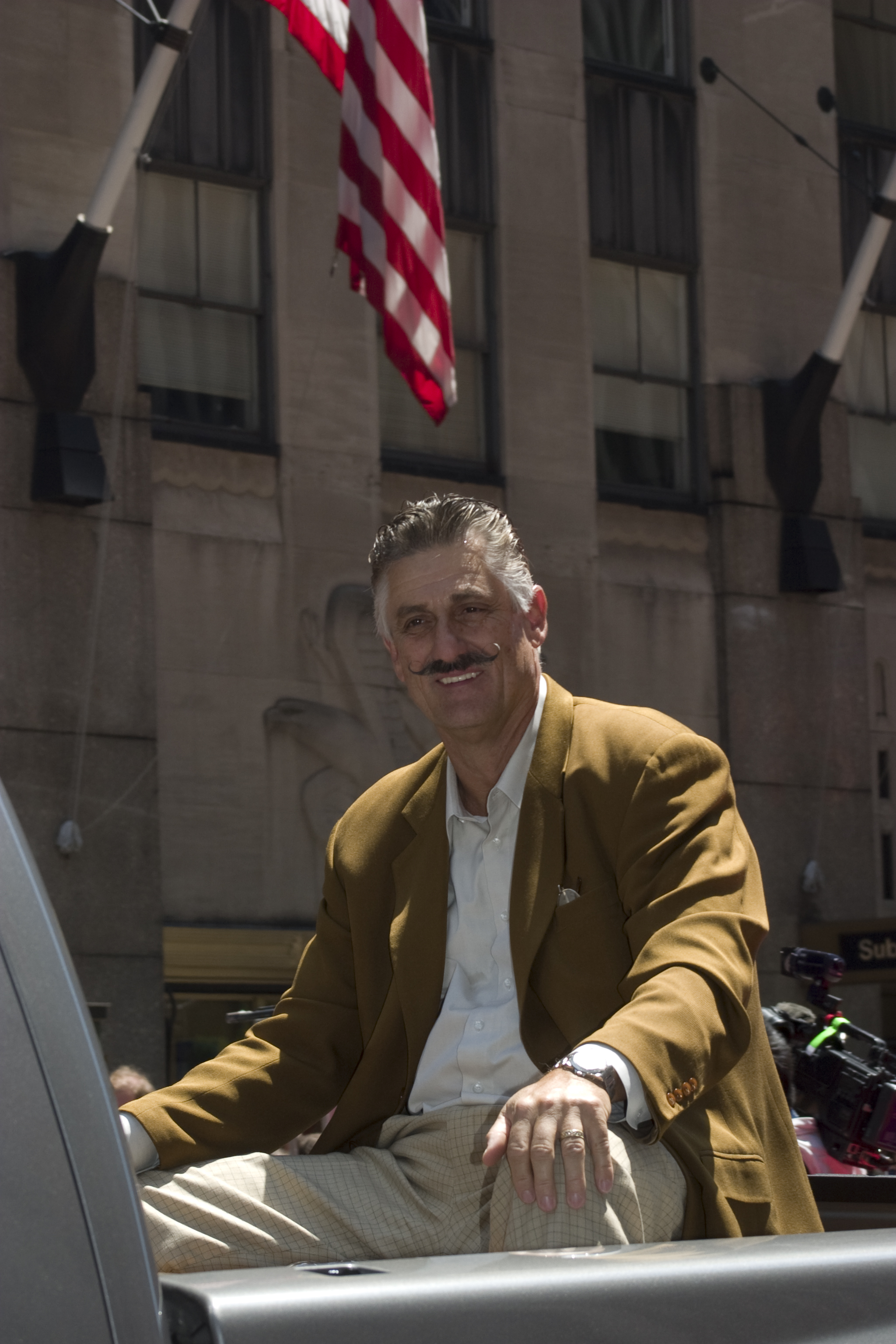 Hall of Fame baseball player Rollie Fingers at the 2008 All-Star Game Red Carpet Parade. © Rubenstein, photographer Martyna Borkowski